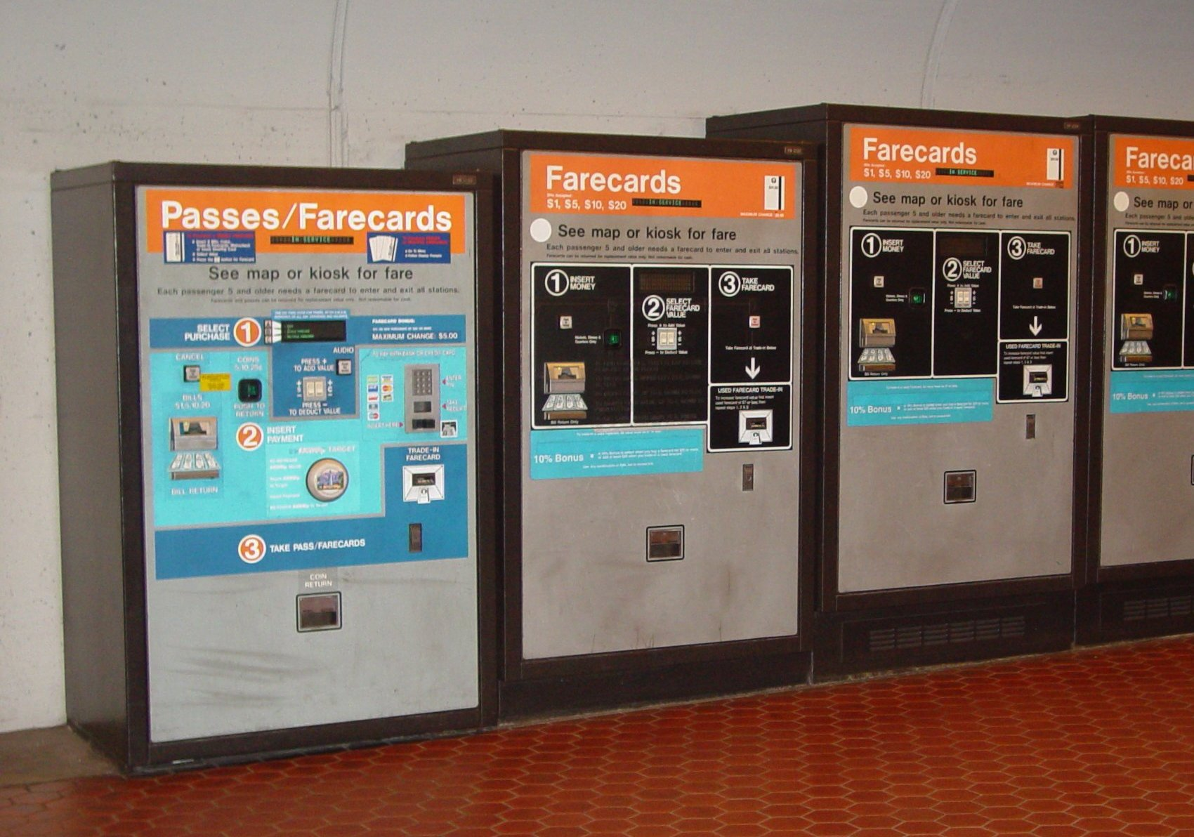 Washington Metro farecard vending machines at Capitol South station. The machine on the left is a "Passes/Farecards" machine, which not only dispenses paper farecards, but also processes SmarTrip transactions, and dispenses daily and weekly rail passes. The two machines to the right are regular farecard vending machines, which only dispense paper farecards.